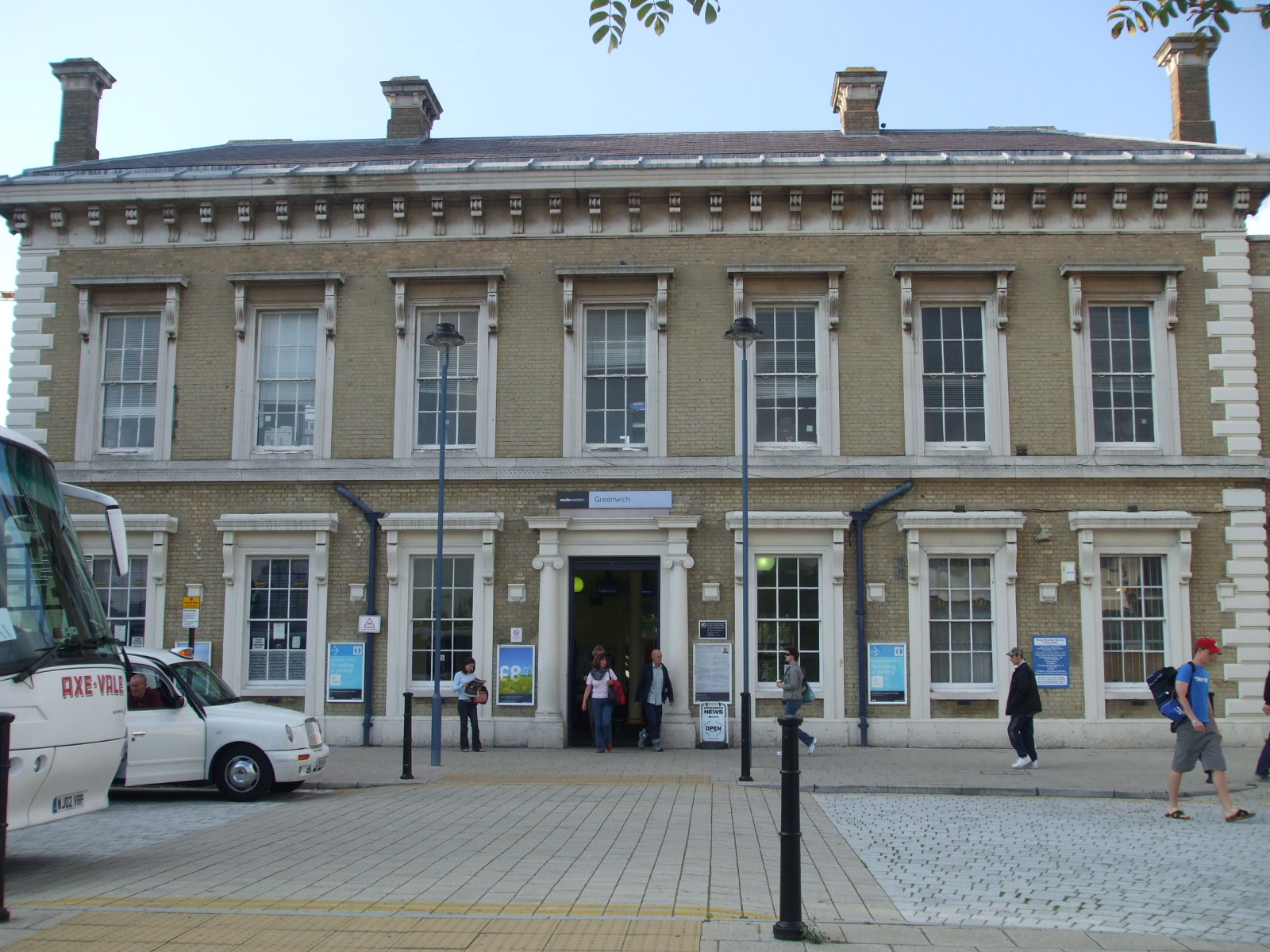 Greenwich station main building.